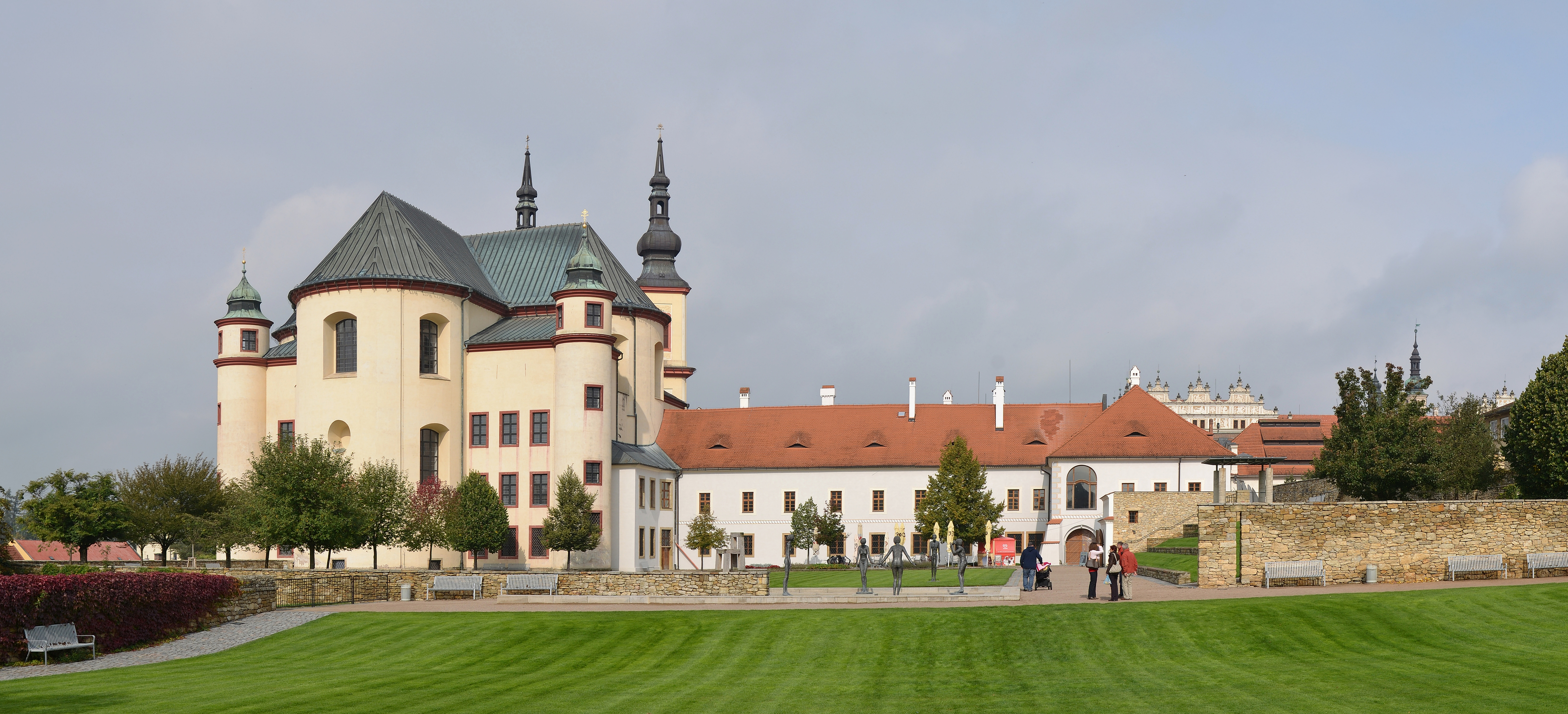 Church of the Finding of the True Cross and monastery gardens in Litomyšl, Czech Republic